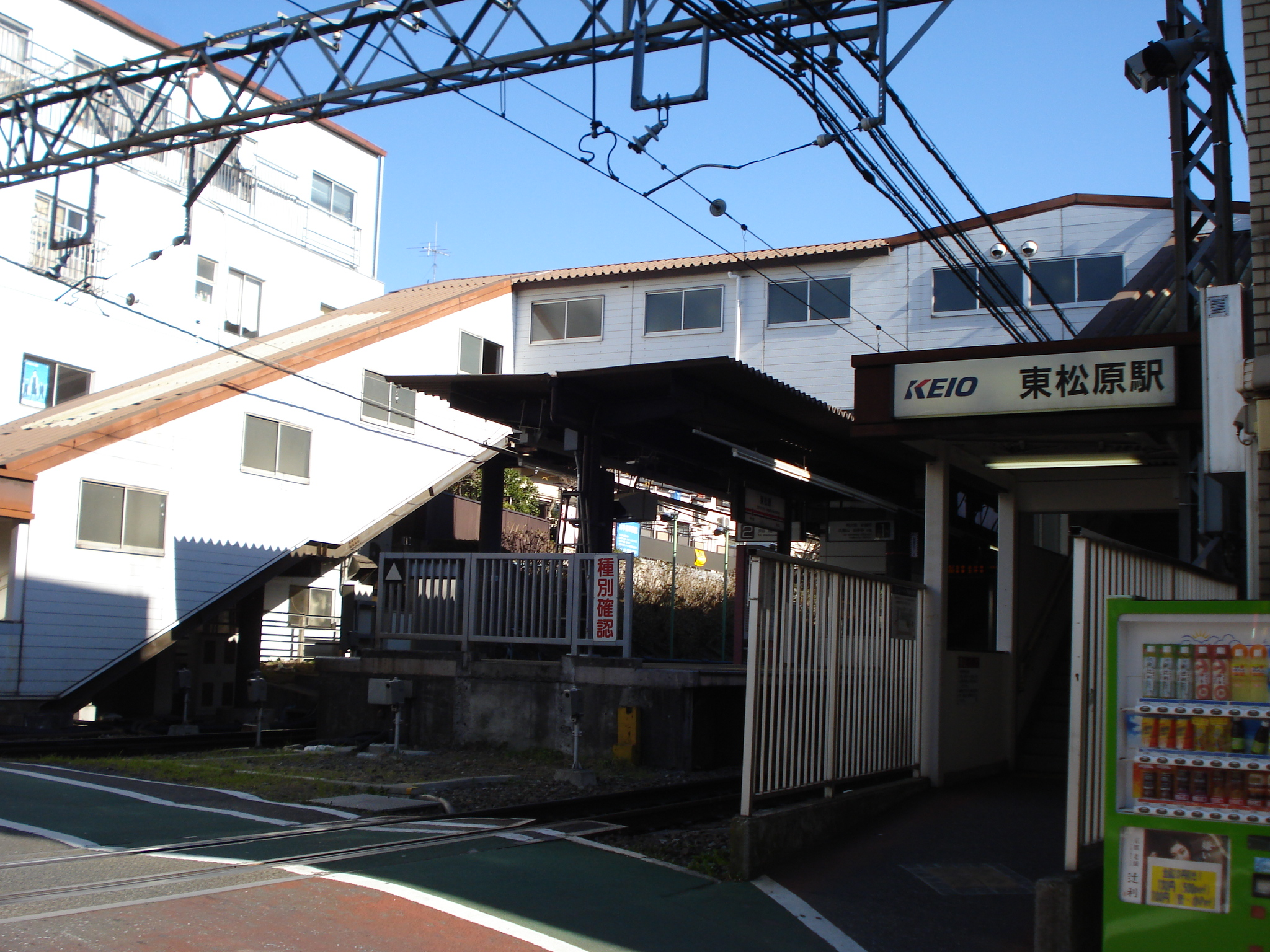 West exit of Higashi-Matsubara Station on the Keio Inokashira Line in Setagaya, Tokyo